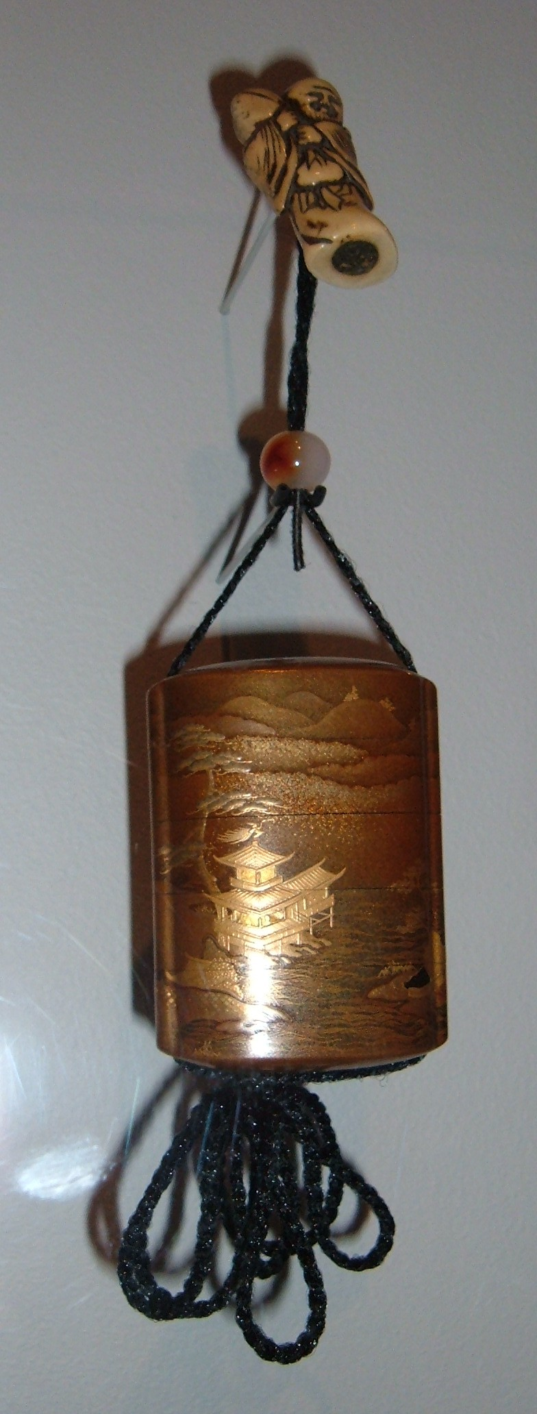 Inro with a lakeside pavilion with netsuke and ojime (19th century). On display at the Iris & B. Gerald Cantor Center for Visual Arts on the Stanford University campus in Stanford, California. 1996.90